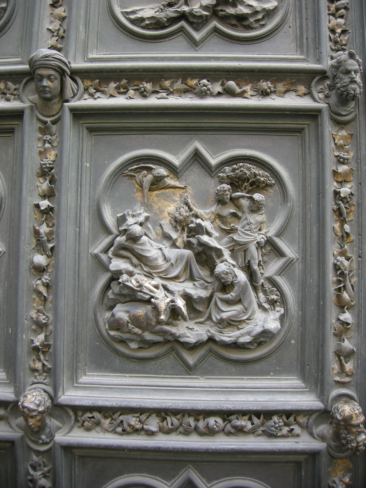 North Doors of the Florence Baptistry10